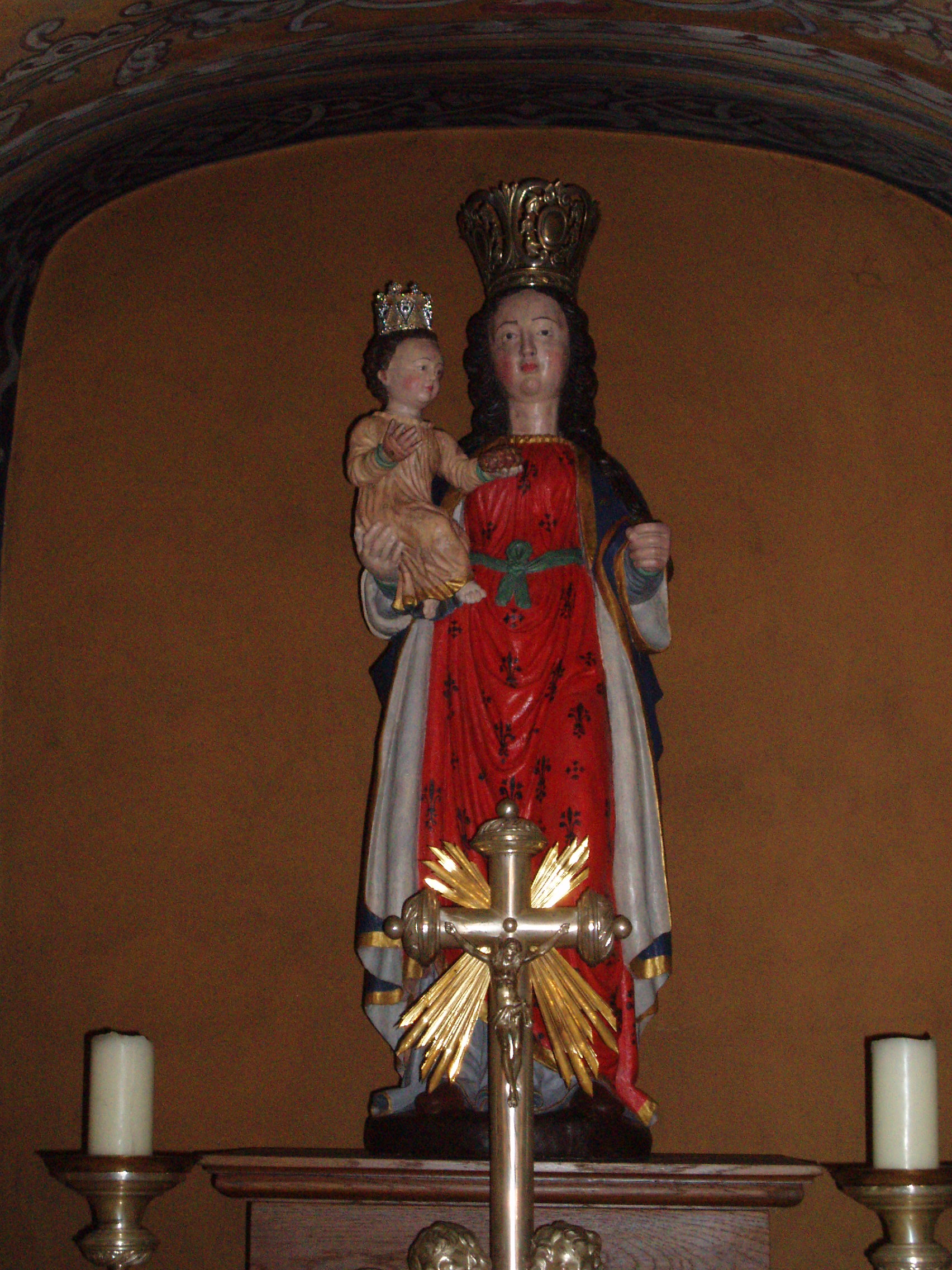 Bornem Onze-Lieve-Vrouw en Sint-Leodegariuskerk statue Maria